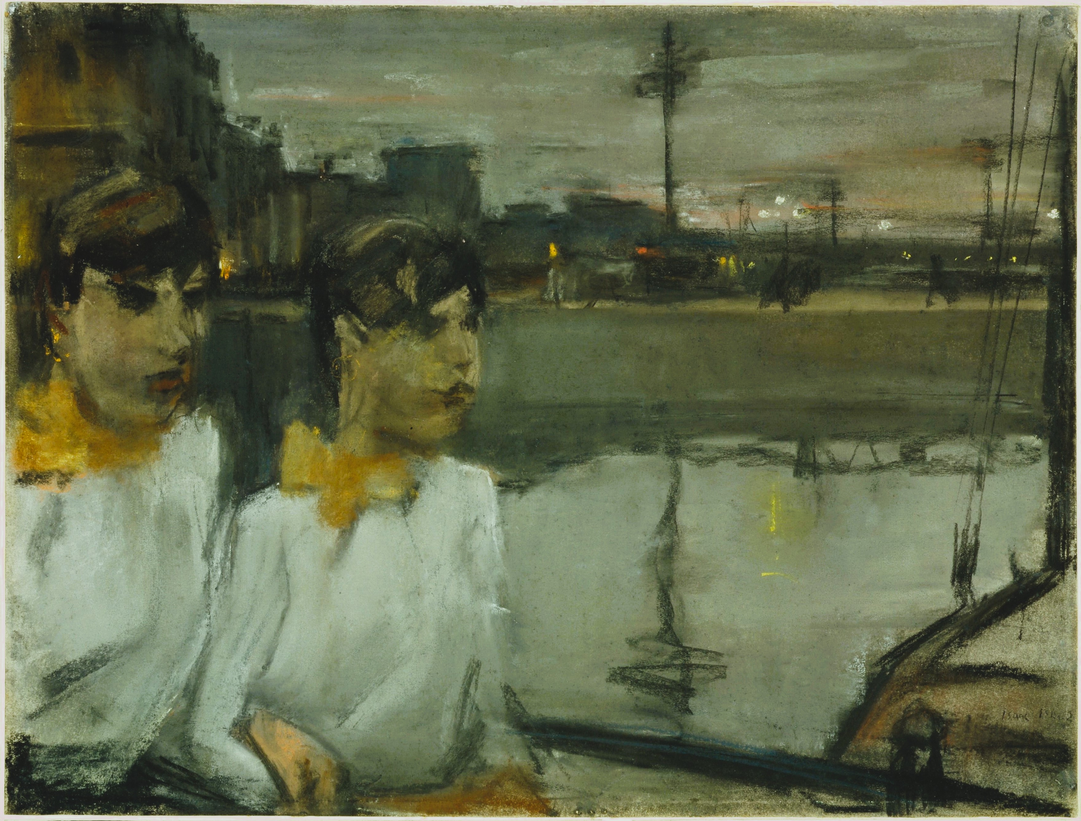 Meisjes langs de Prins Hendrikkade